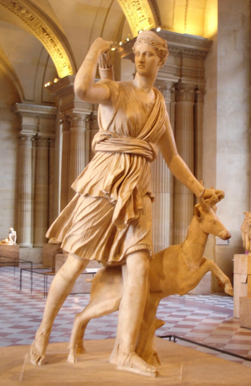 Artemis with a hind, better known as "Diana of Versailles". Marble, Roman artwork, Imperial Era (1st-2nd centuries CE). Found in Italy.